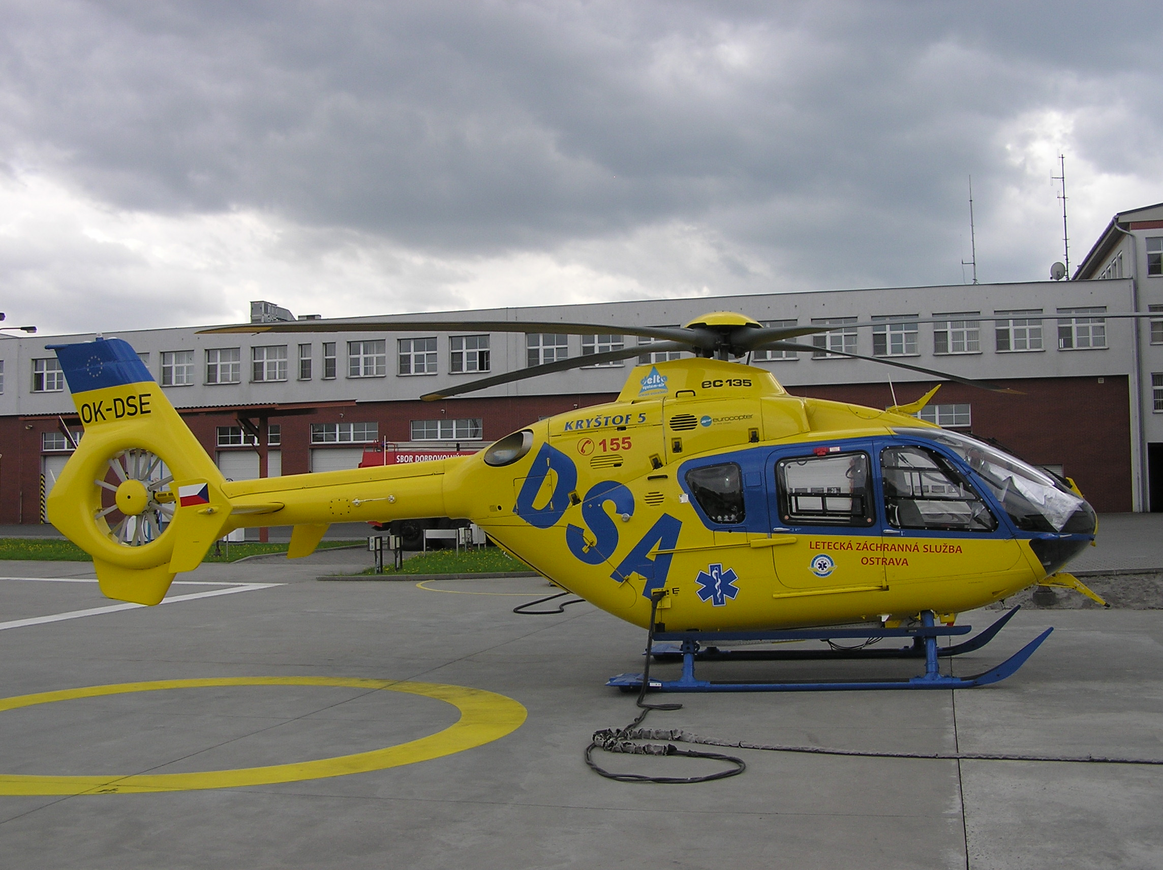 Eurocopter EC135 T2+ (OK-DSE) of the HEMS Ostrava, Czech Republic